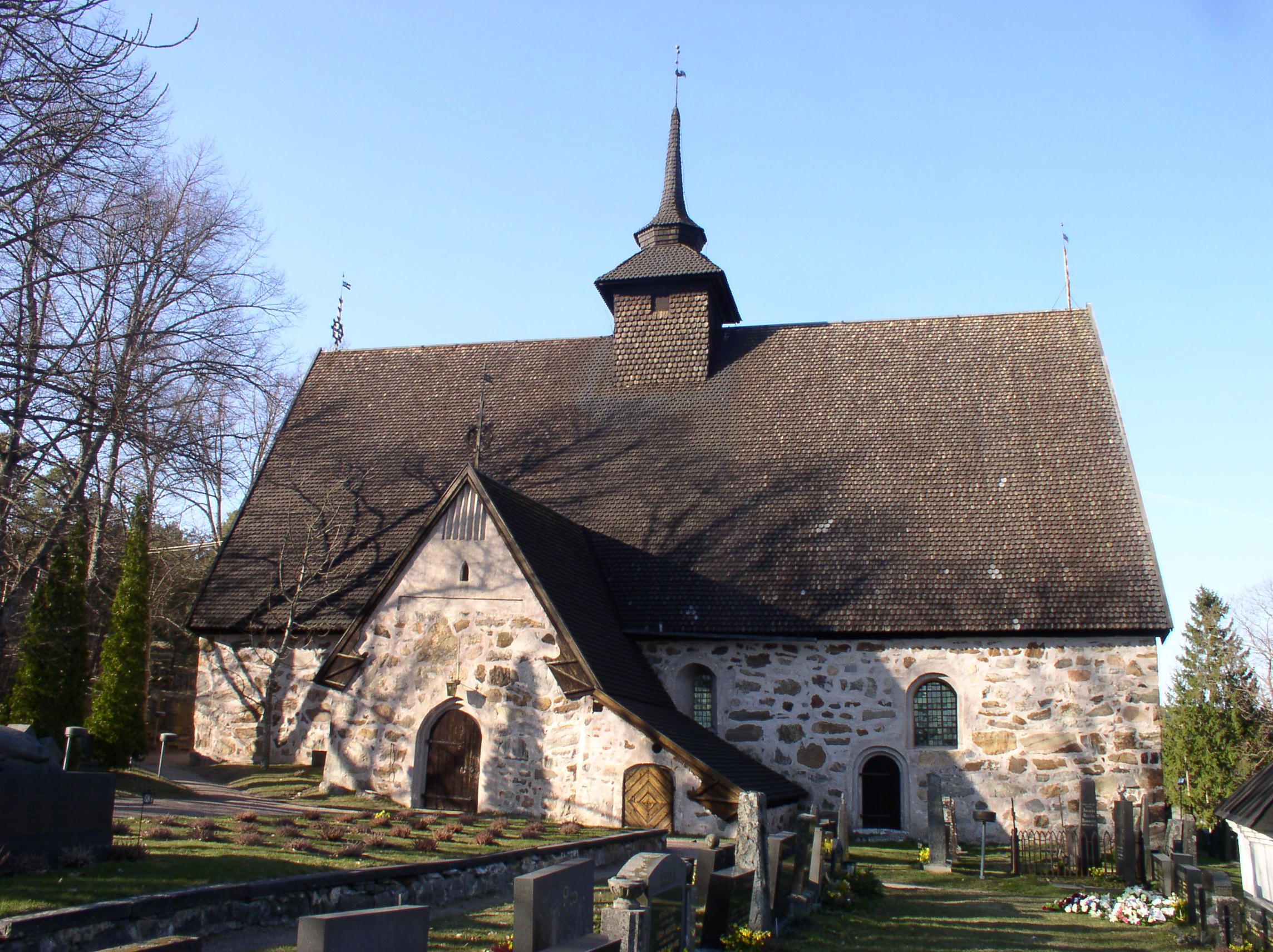 Rymättylä church in Rymättylä (Naantali), Finland.